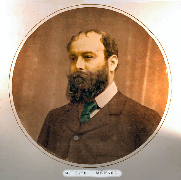 Émile René Ménard, French painter